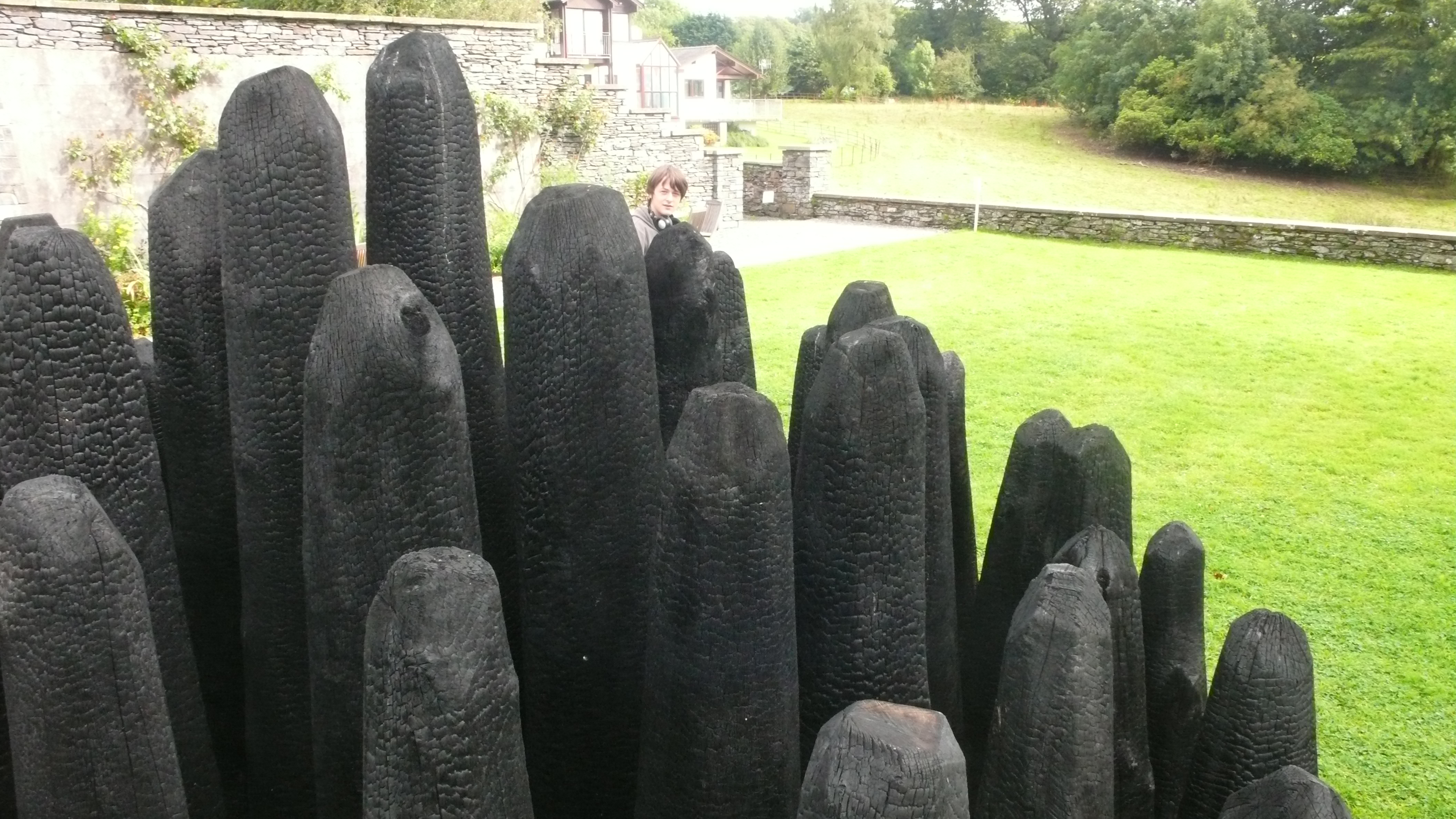 Black Dome in Cumbria/UK